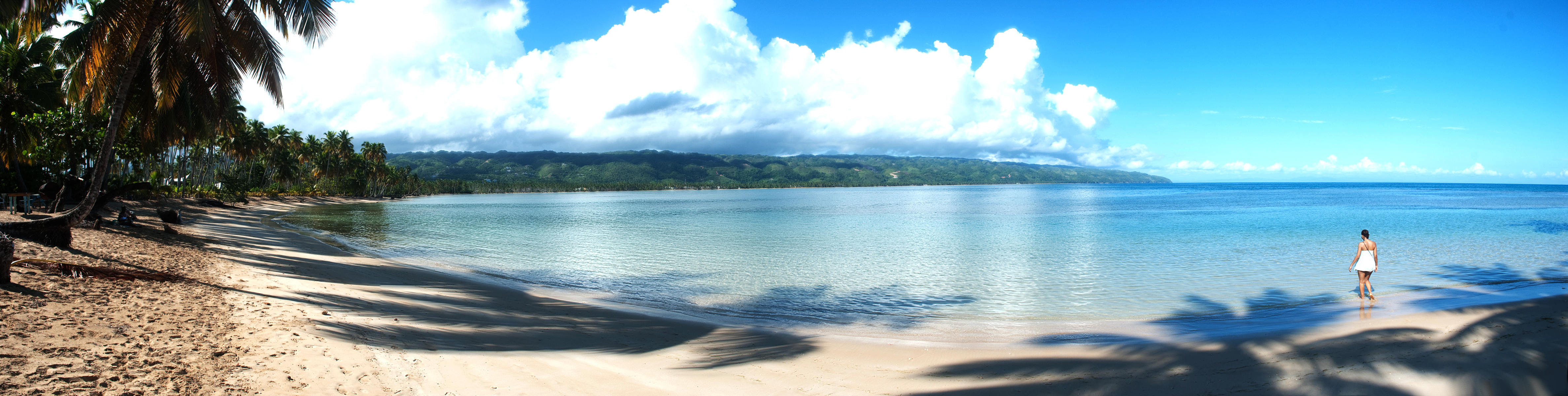 Panoramic image of a Beach in Las Terrenas, Dominican Republic